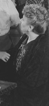 Consuelo Abad- actriz española